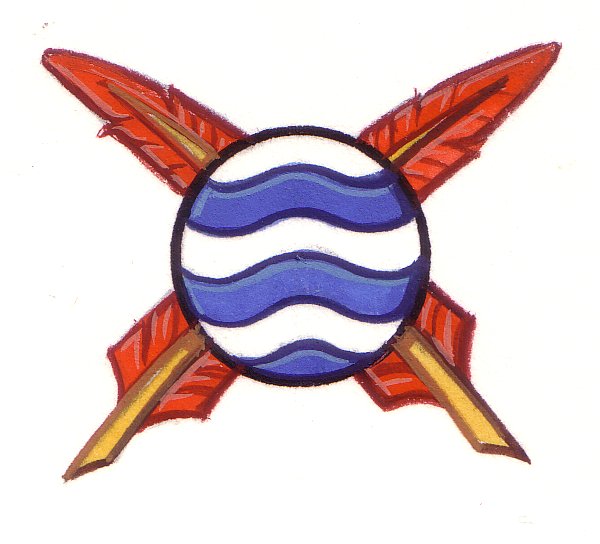 example of current badge as granted by the College of Arms, London